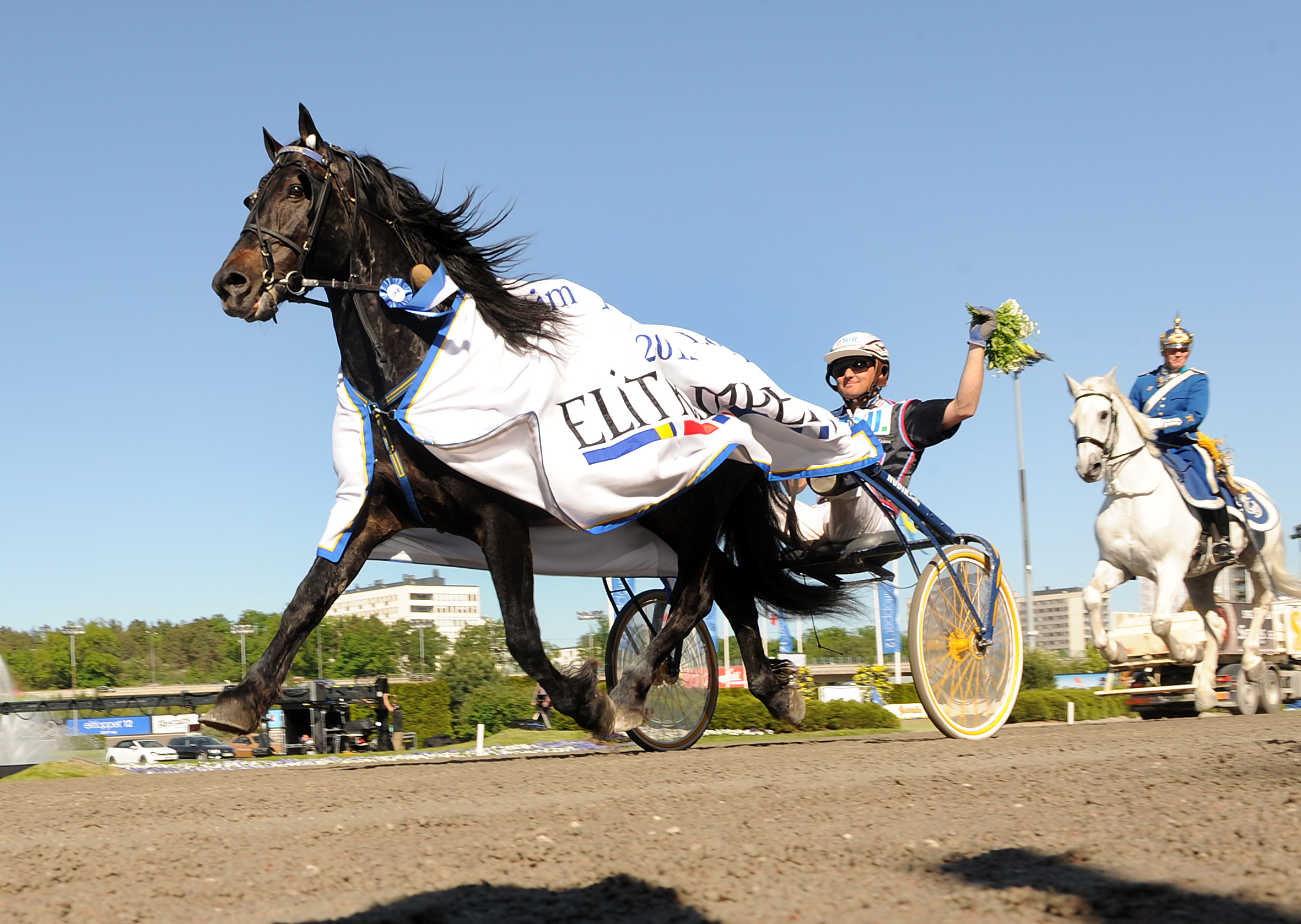 Trotting horse Hallsta Lotus and driver Ulf Ohlsson.